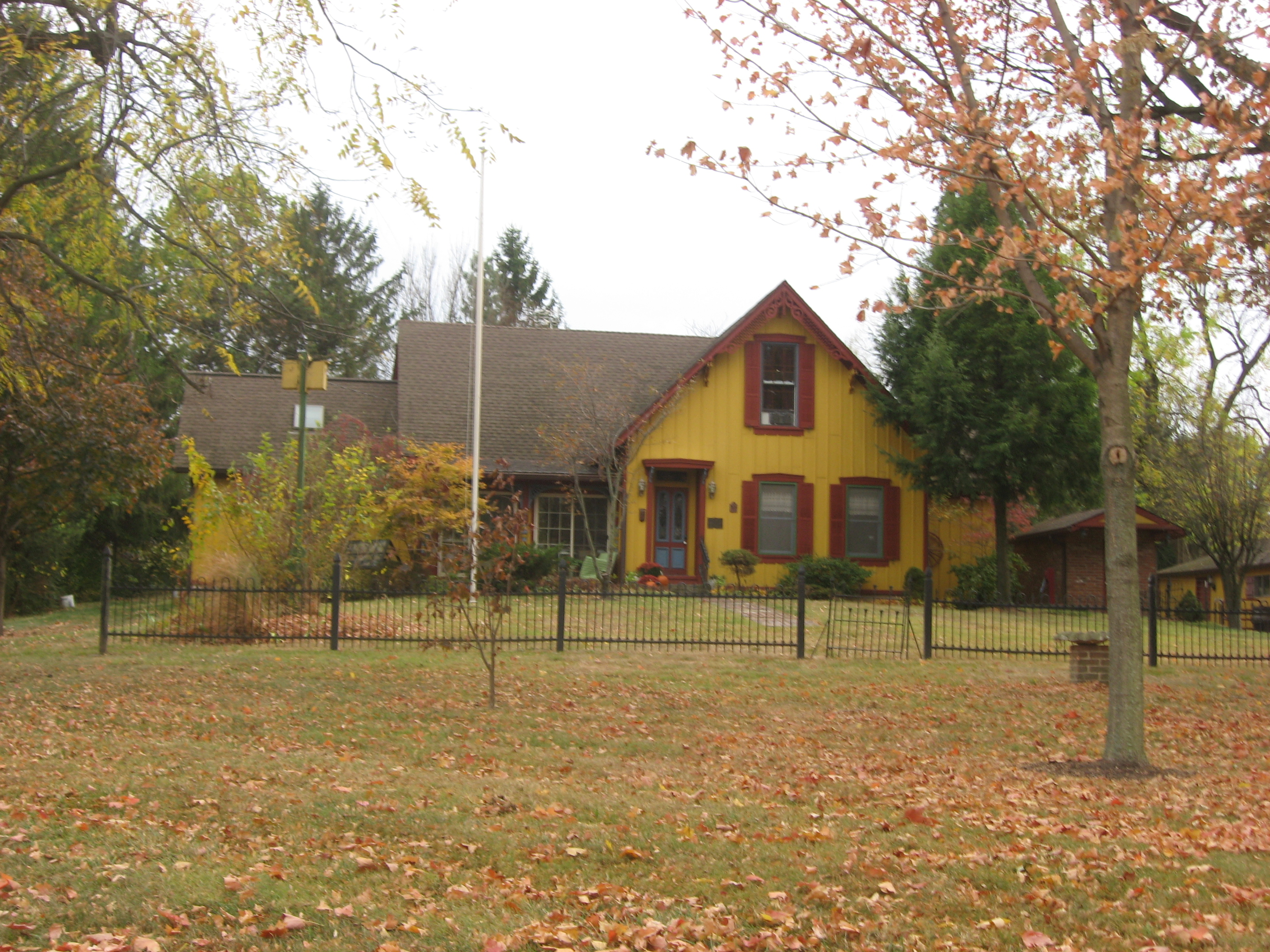 Front of the Anderson-Thompson House, located at 6551 Shelbyville Road in Franklin Township, Marion County (Indianapolis), Indiana, United States. Built in 1855, it is listed on the National Register of Historic Places.